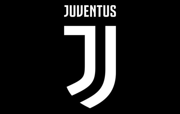 2017–20 logo of Juventus Football Club, negative version.